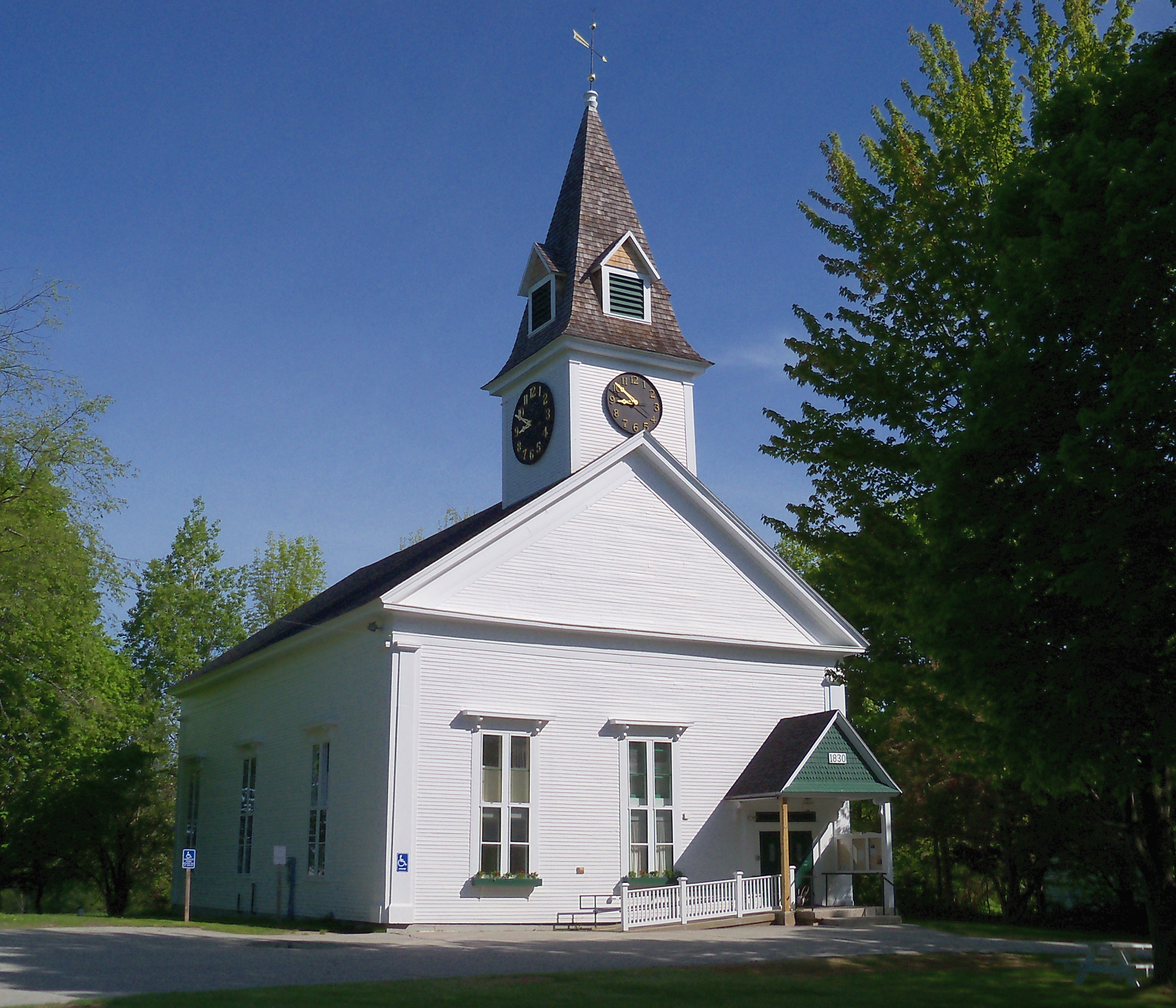 Meetinghouse in Sugar Hill, New Hampshire, USA. Built in 1830.